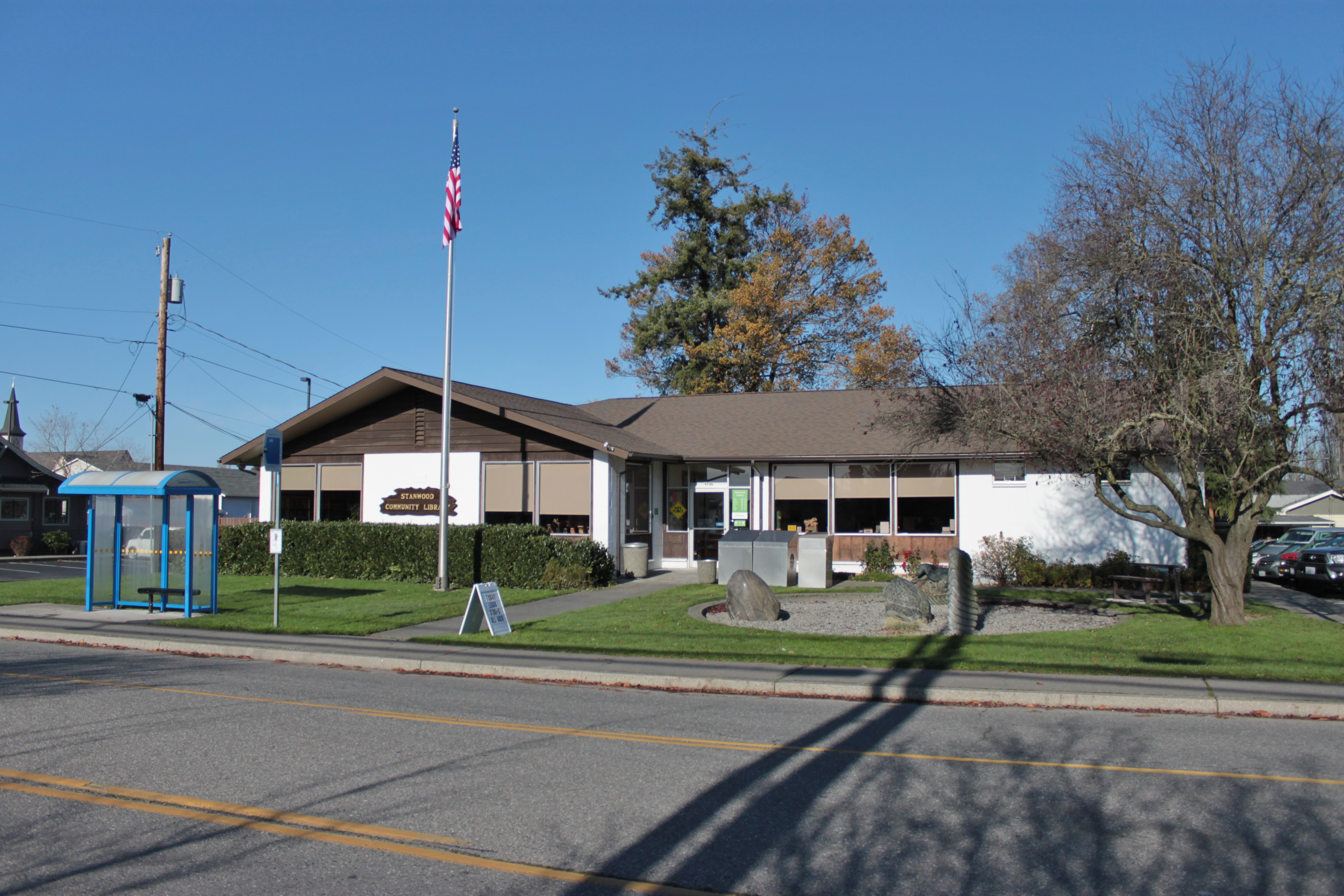 The Stanwood branch of the Sno-Isle Libraries system